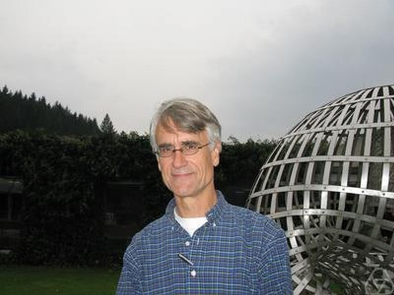 Gert Heckman, Oberwolfach 2008